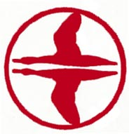 This emblem, designed in 1966 by Oded Marom, who led the IAF Flight School aerobatic team, for the Fouga CM-170 Magister planes, and it is the aerobatic team emblem to this very day.